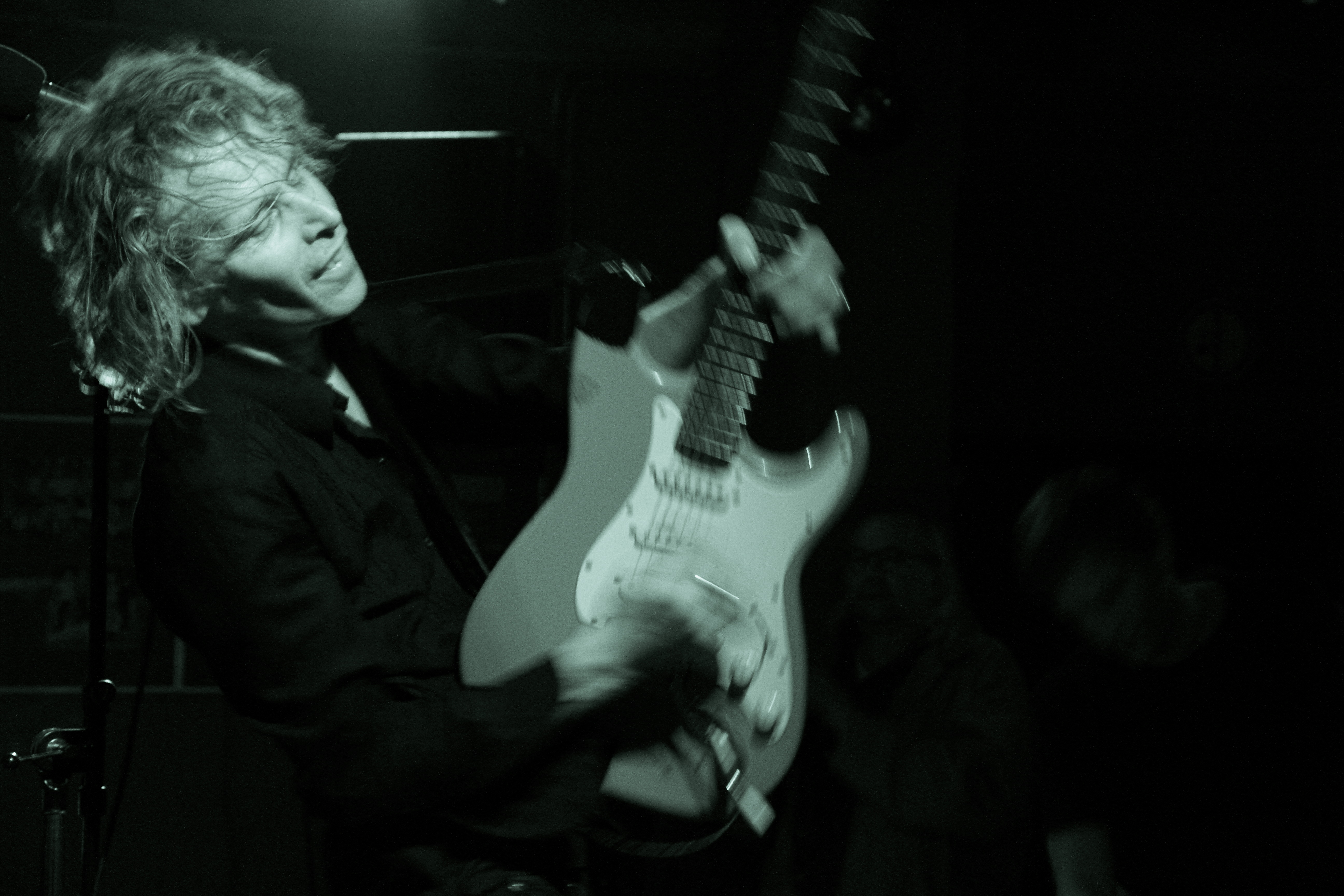 James Johnston and Gallon Drunk at Club W71, 2014.